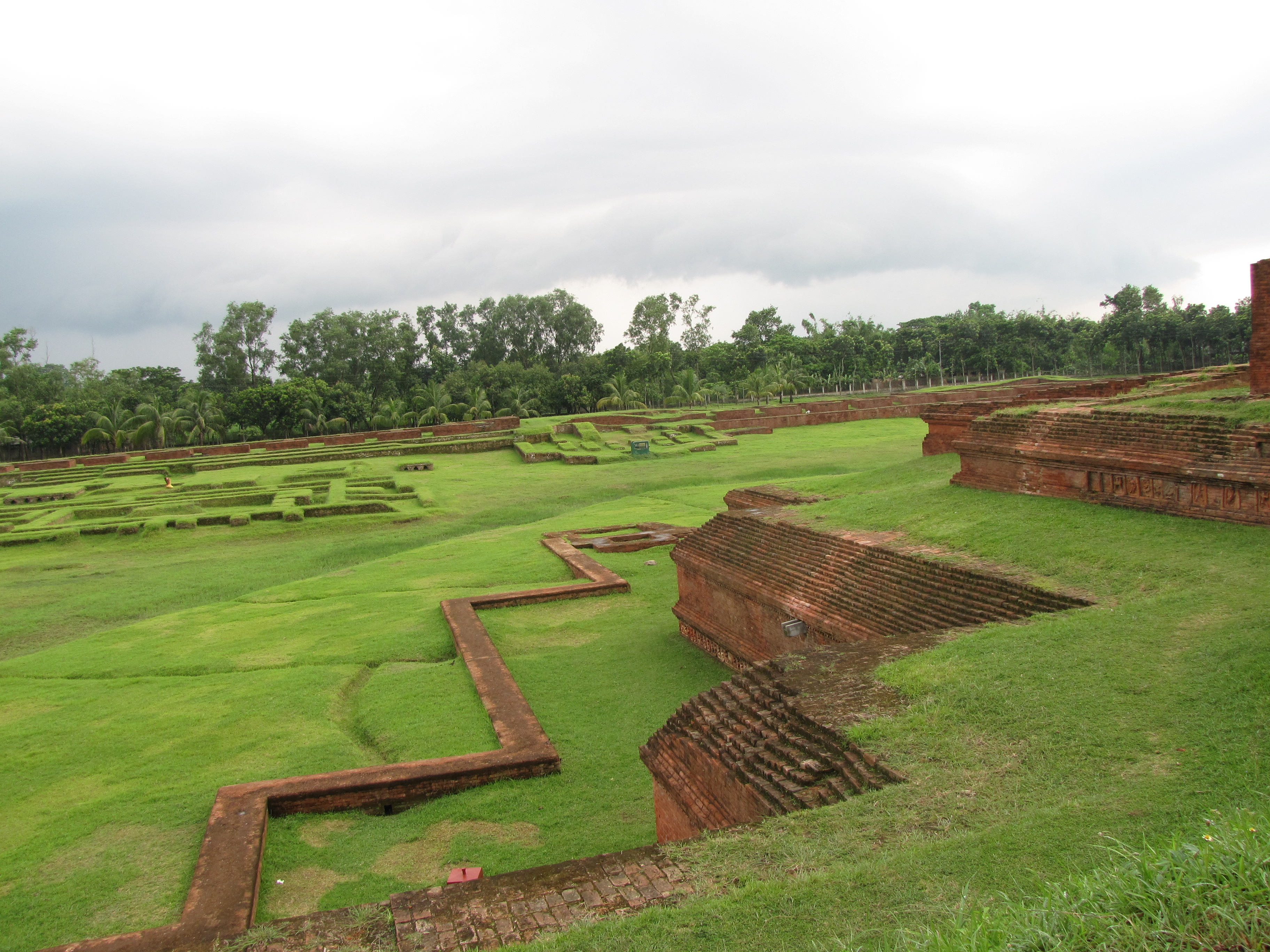 First level plinth at Somapura Mahavihara.